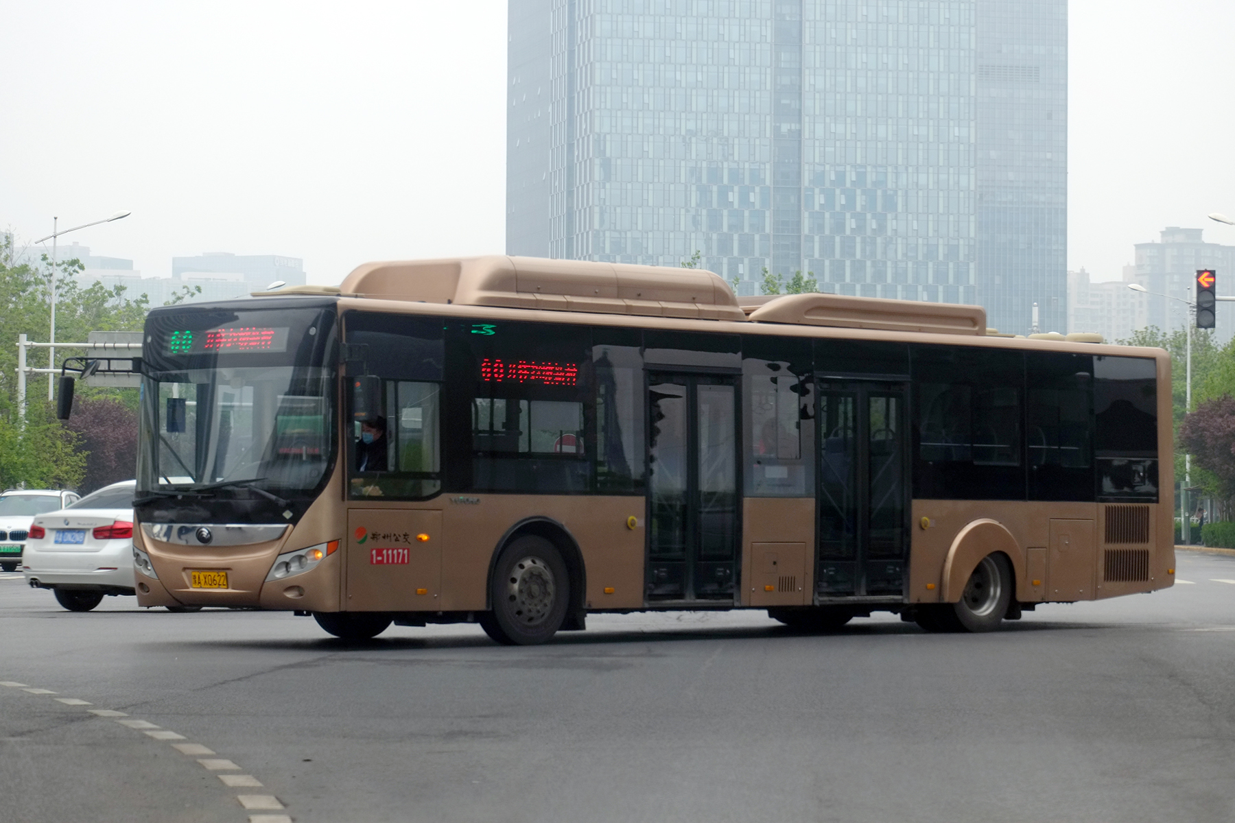 Zhengzhou Bus Route 60